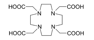 polyaminocarboxylic acid